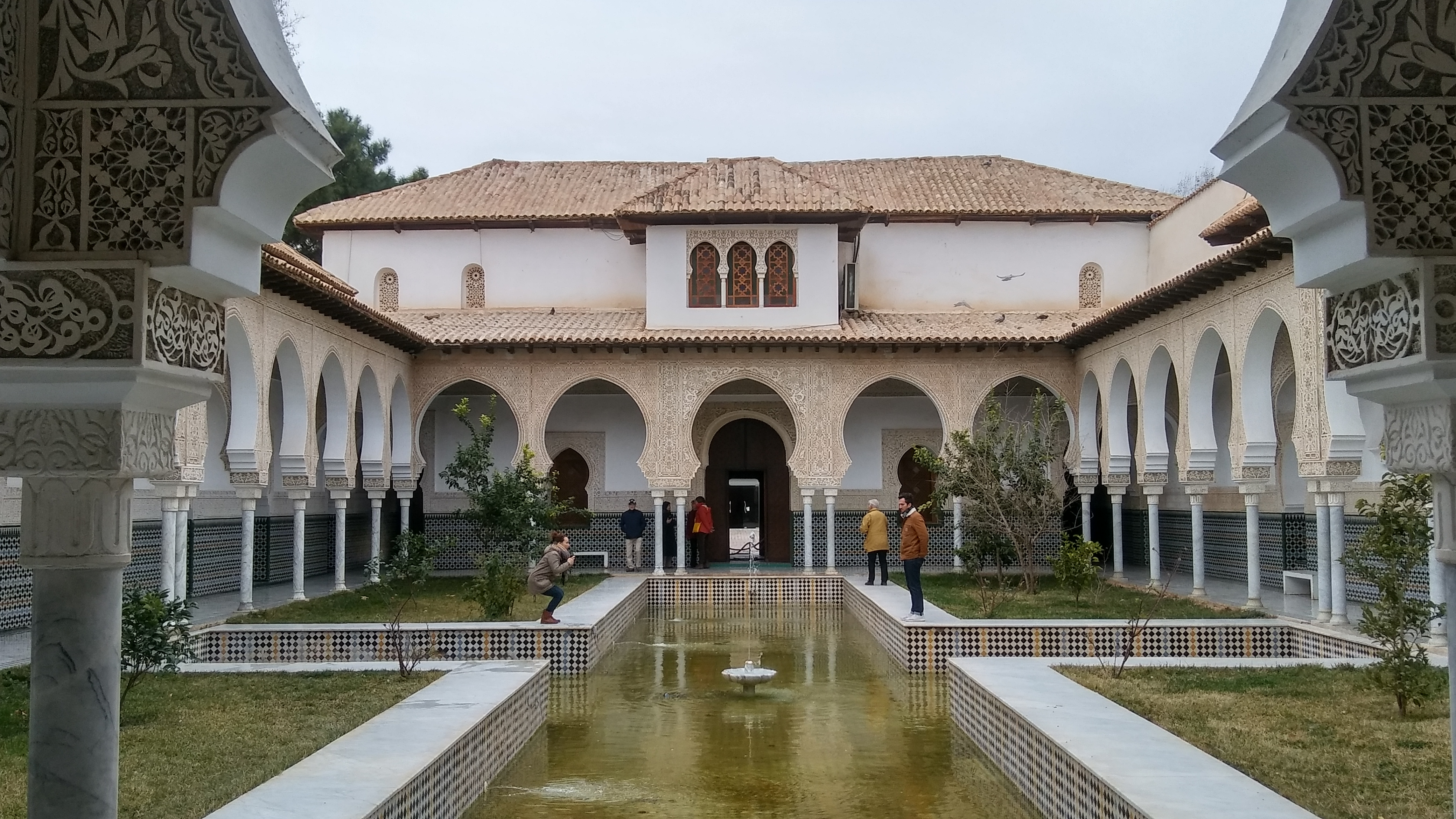 Alzayany Royal Palace